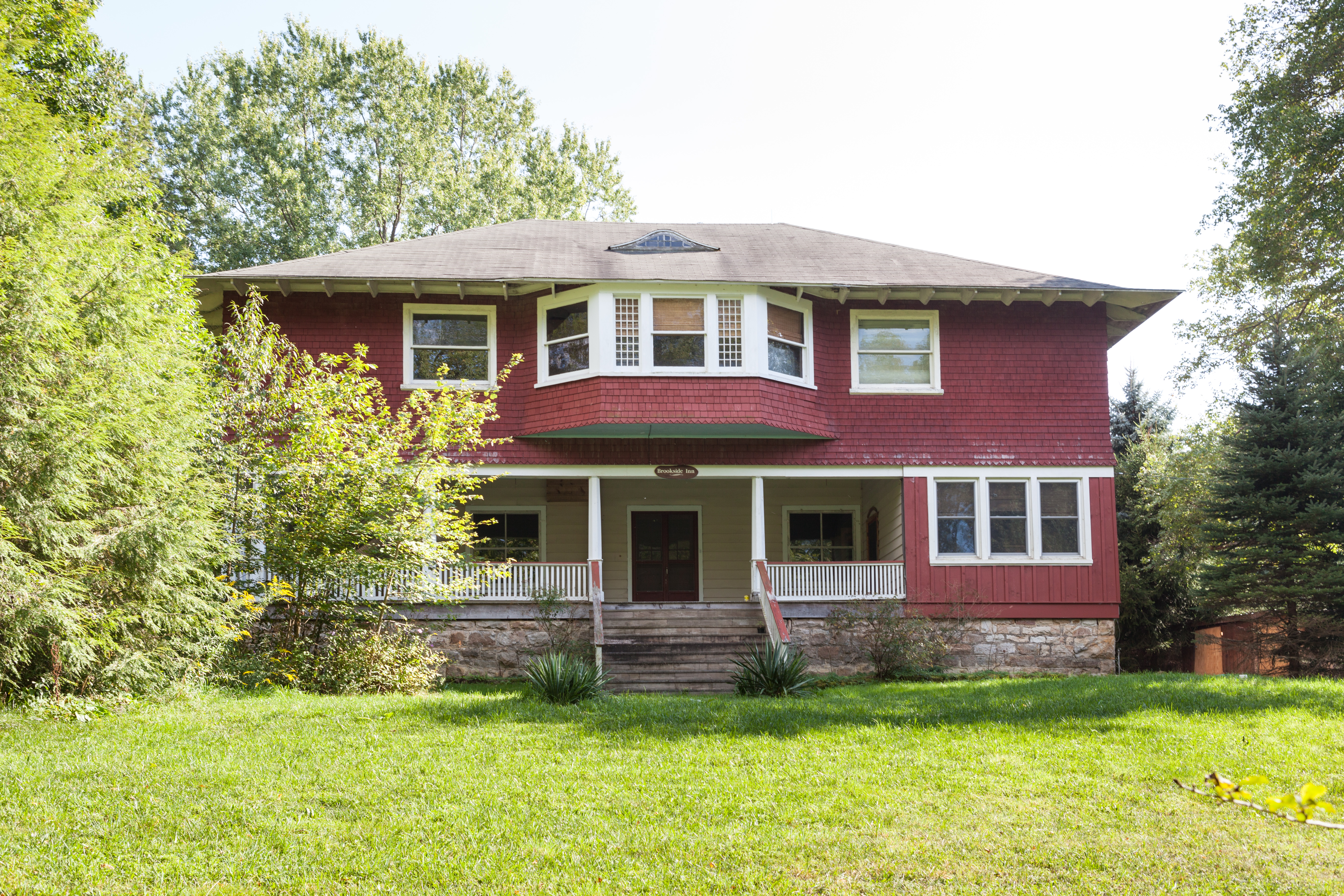 The north side of Gaymont, built about 1896 as a summer resort cottage in Aurora, West Virginia.